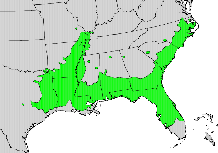 Range map of Carya aquatica